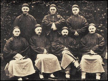 The Cambridge Severn in Mandarin outfits - 1885